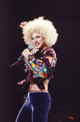 Photo taken during one of the concerts in 1993